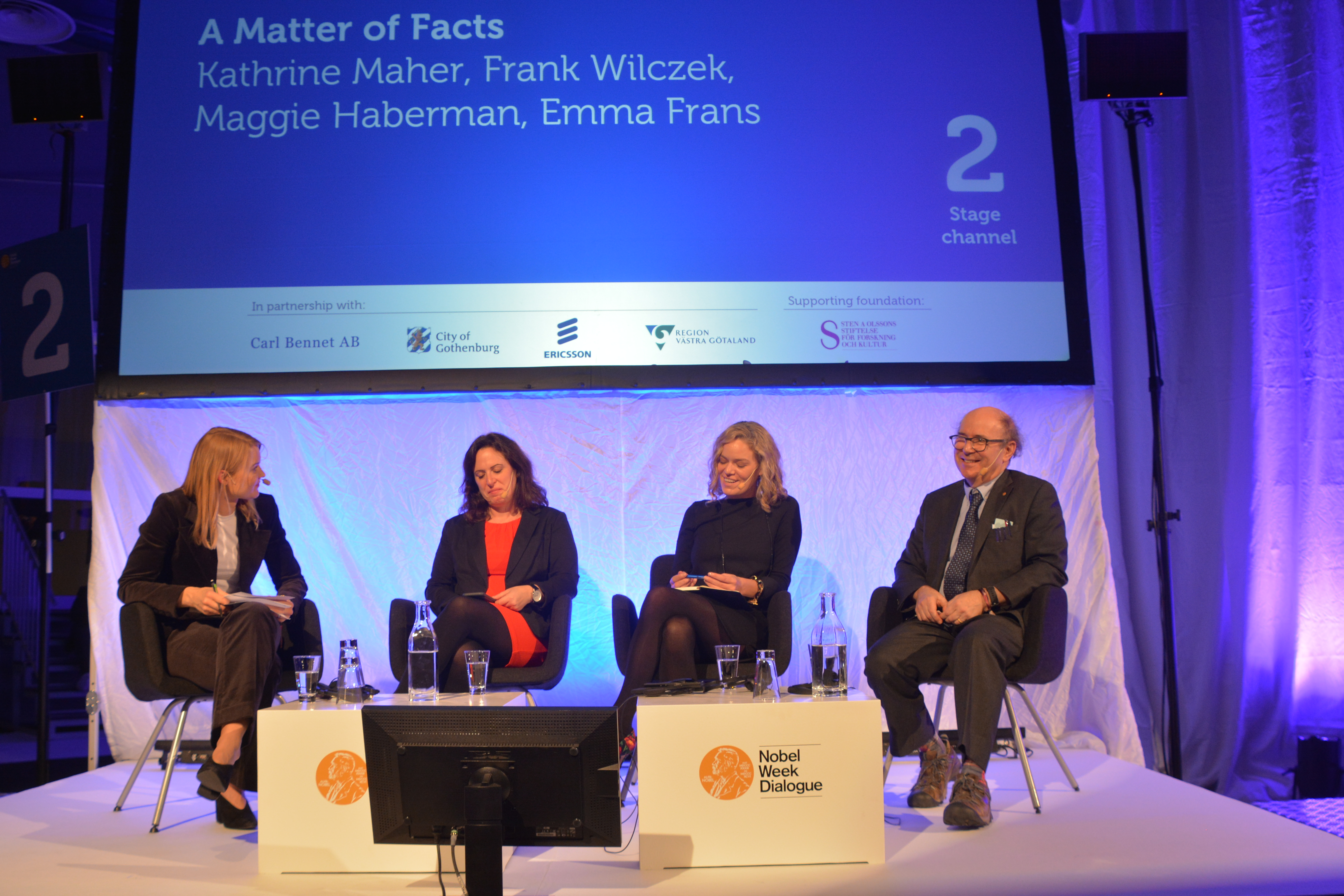 Panel discussion Nobel Week Dialogue 2017 in Göteborg, Sweden. From left: Emma Frans, Maggie Haberman, Katherine Maher and Frank Wilczek